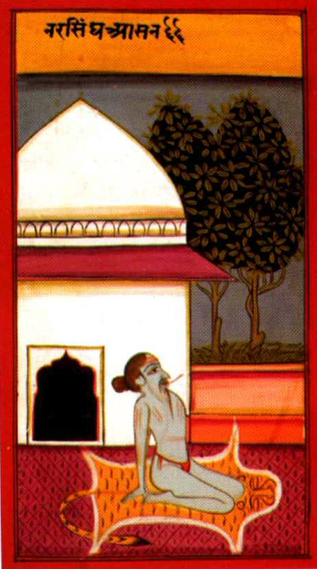 Illustration of Narasimhasana (Simhasana) yoga pose from manuscript of, 1830.